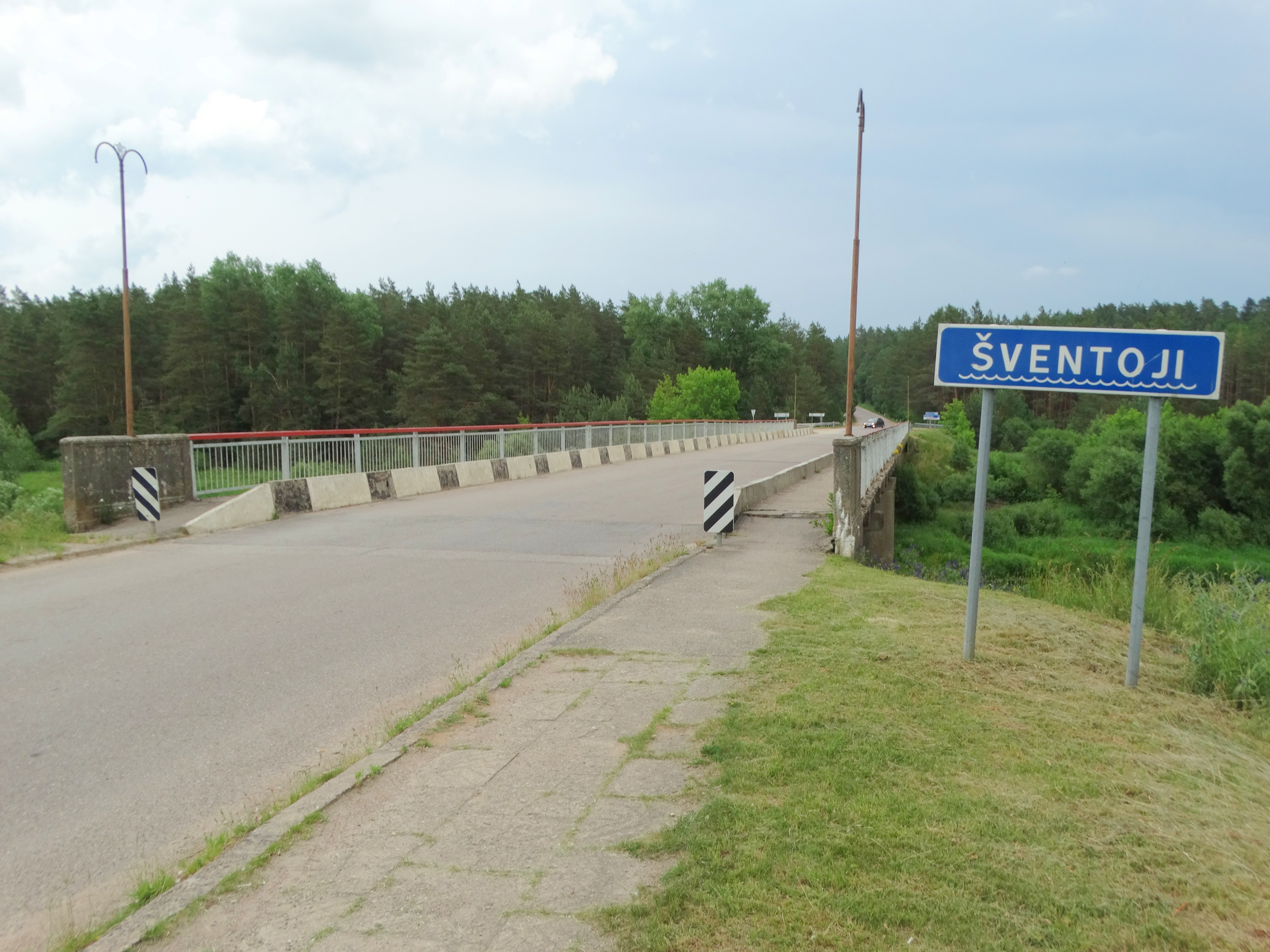 Bridge on Šventoji River, Kavarskas, Anykščiai district, Lithuania